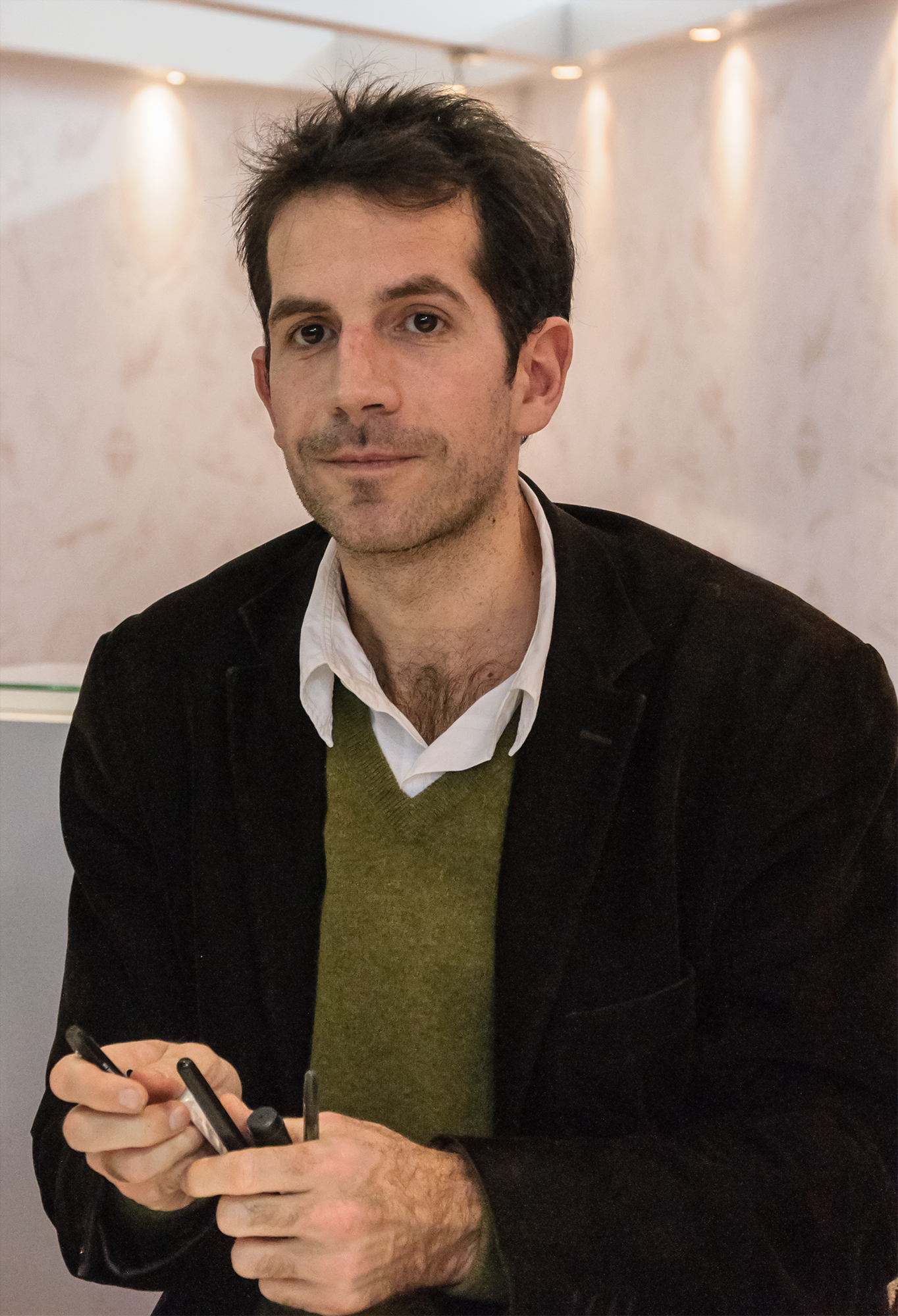 Jul, a French editorial cartoonist and comics artist, at the 40th Angoulême International Comics Festival, 2013.